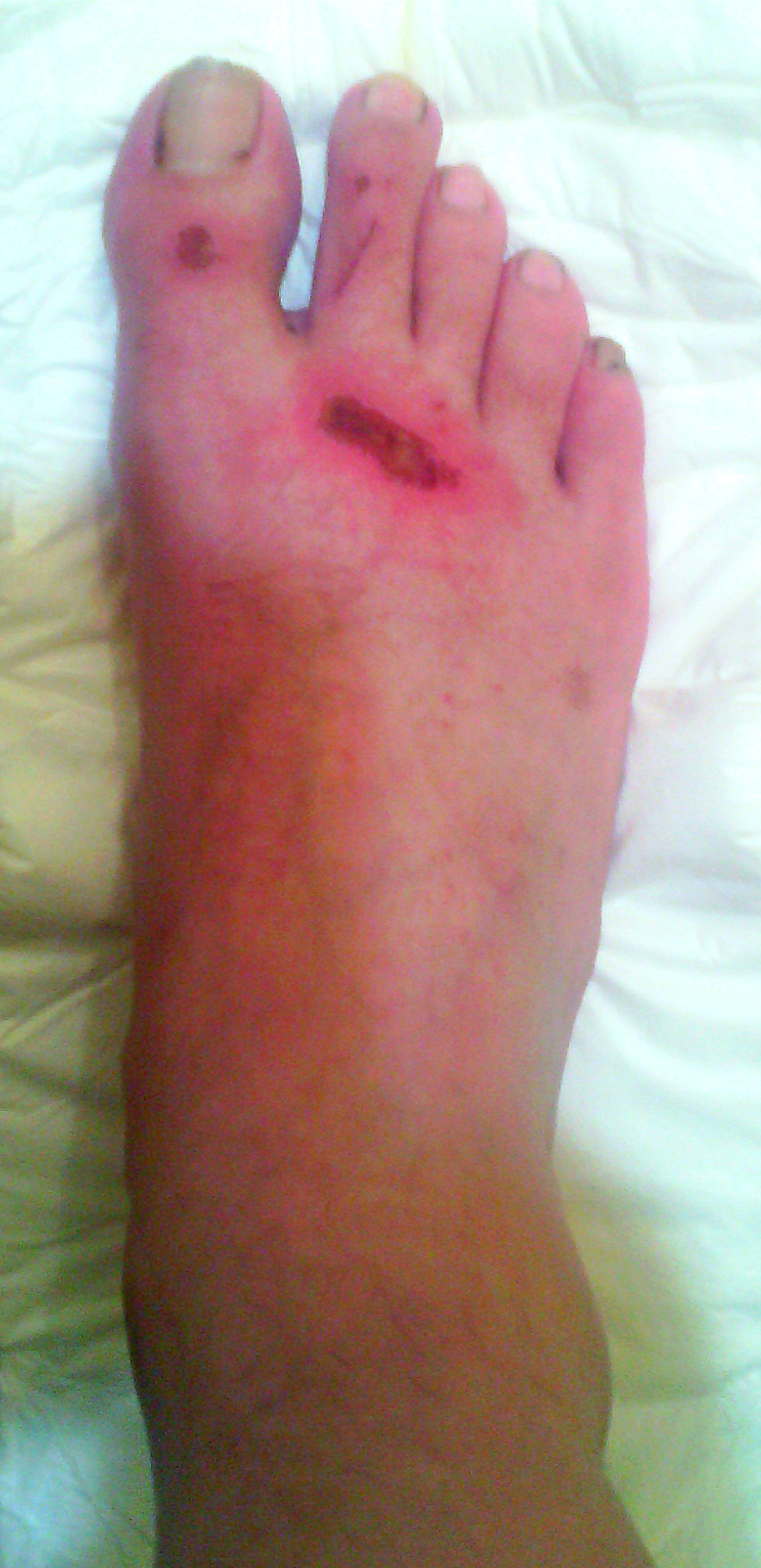 47, Lomonosova Street, Severodvinsk.Hospital.